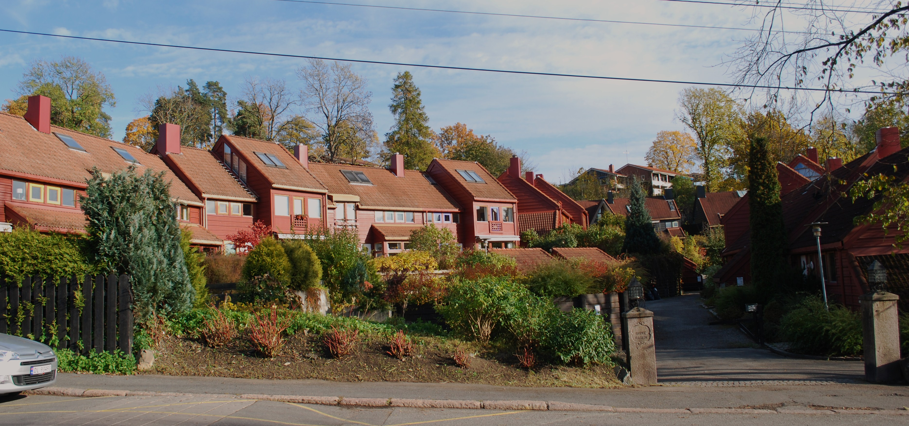 Giskehagen boligfelt, oppført for Norsk Olje AS, arkitekt Niels Torp, 1983, 57 sammenkjedede eneboliger. Houens fonds diplom 1988